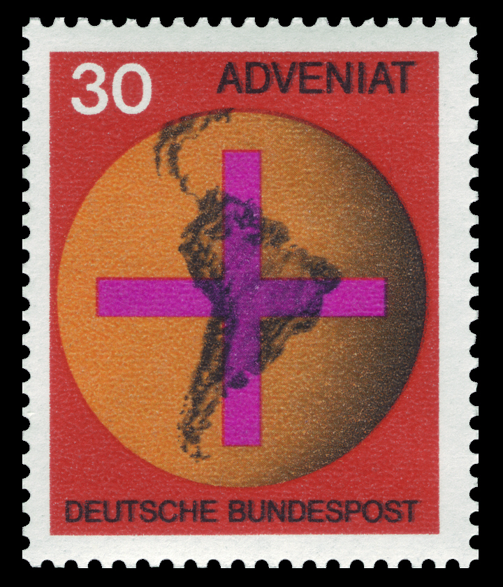 ADVENIAT Graphics by Klein Ausgabepreis: 30 Pfennig First Day of Issue / Erstausgabetag: 17. November 1967 Michel-Katalog-Nr: 545